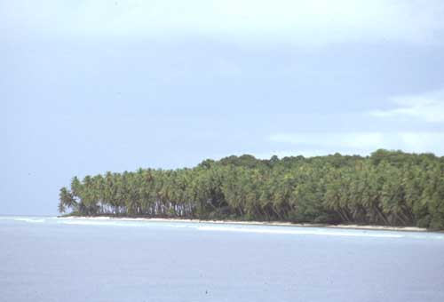 View of the northwest corner of Tobi Island, Southwest Islands of Palau. Original field note: Taken from our chartered "Greenpeace" research vessel, this photo shows that coconut palms have been planted on almost every strip of available land (except in the island center). Coconuts are a vital food item for villages 600 miles south of the main Palau archipelago.